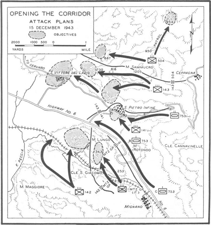 description: Map of Battle of San Pietro Infine